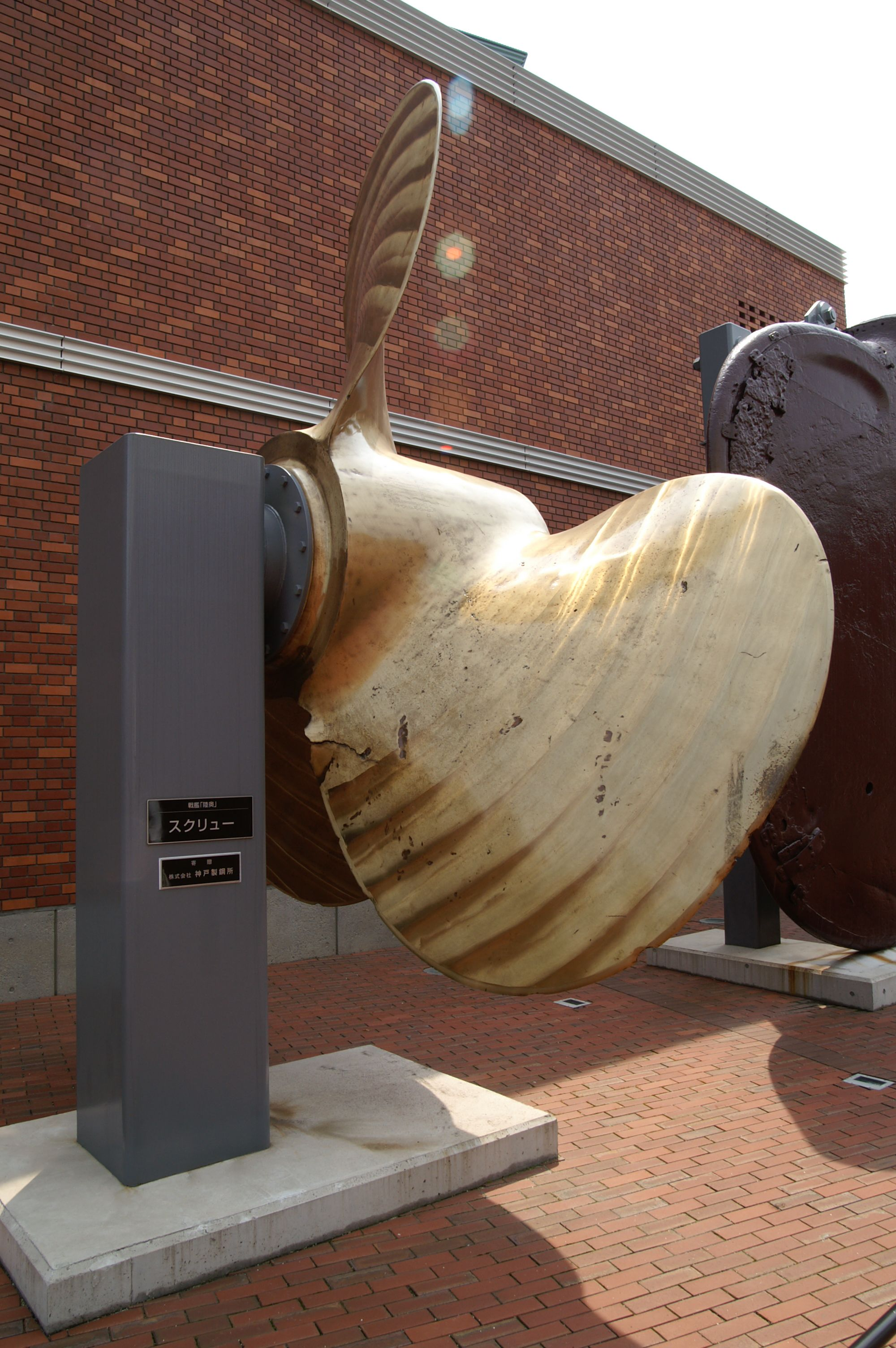 Photograph of propeller from Japanese battleship Mutsu, at the Yamato Museum, Kure, Hiroshima, Japan, with part of rudder visible at right. See File:Mutsu propeller and rudder Yamato Museum.jpg for view from other side.